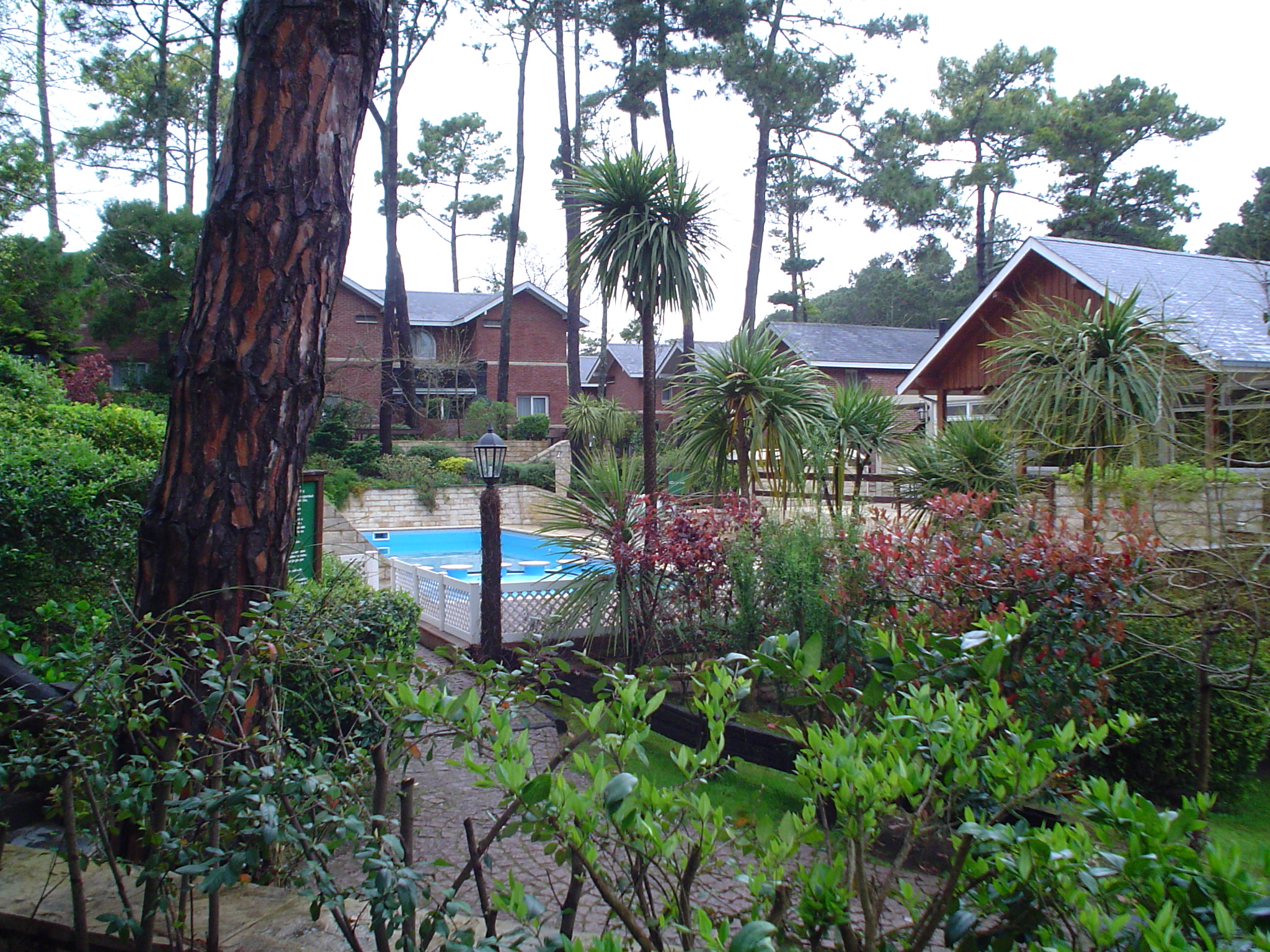 Chalet-style vacation homes in Cariló, Argentina.